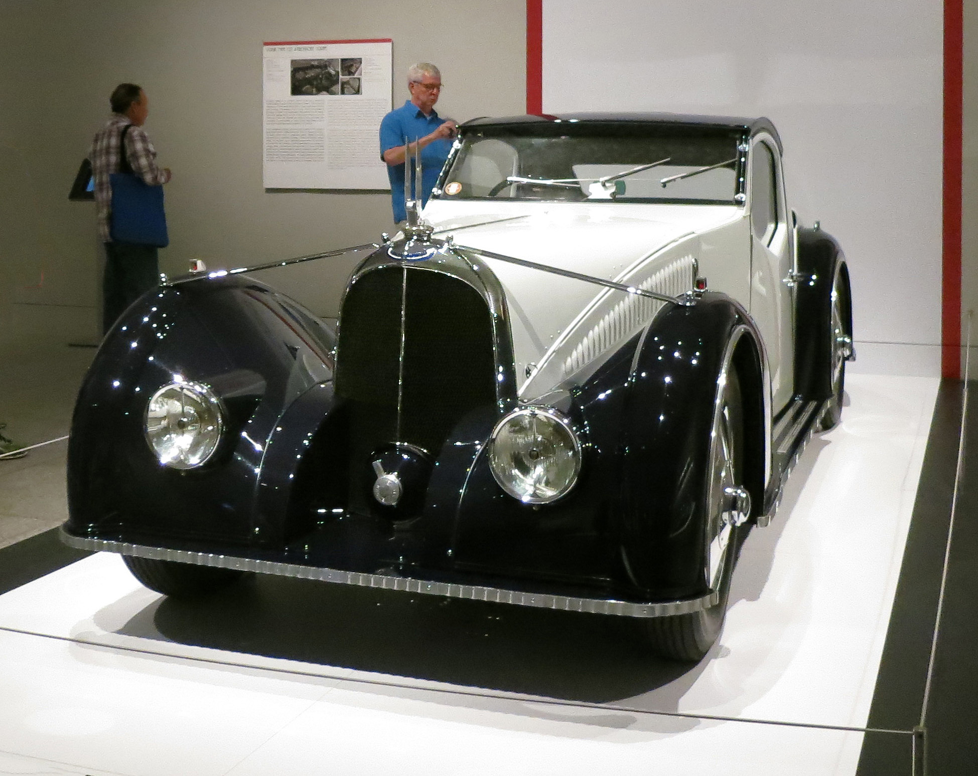 Voisin Type C27 Aerosport Coupe